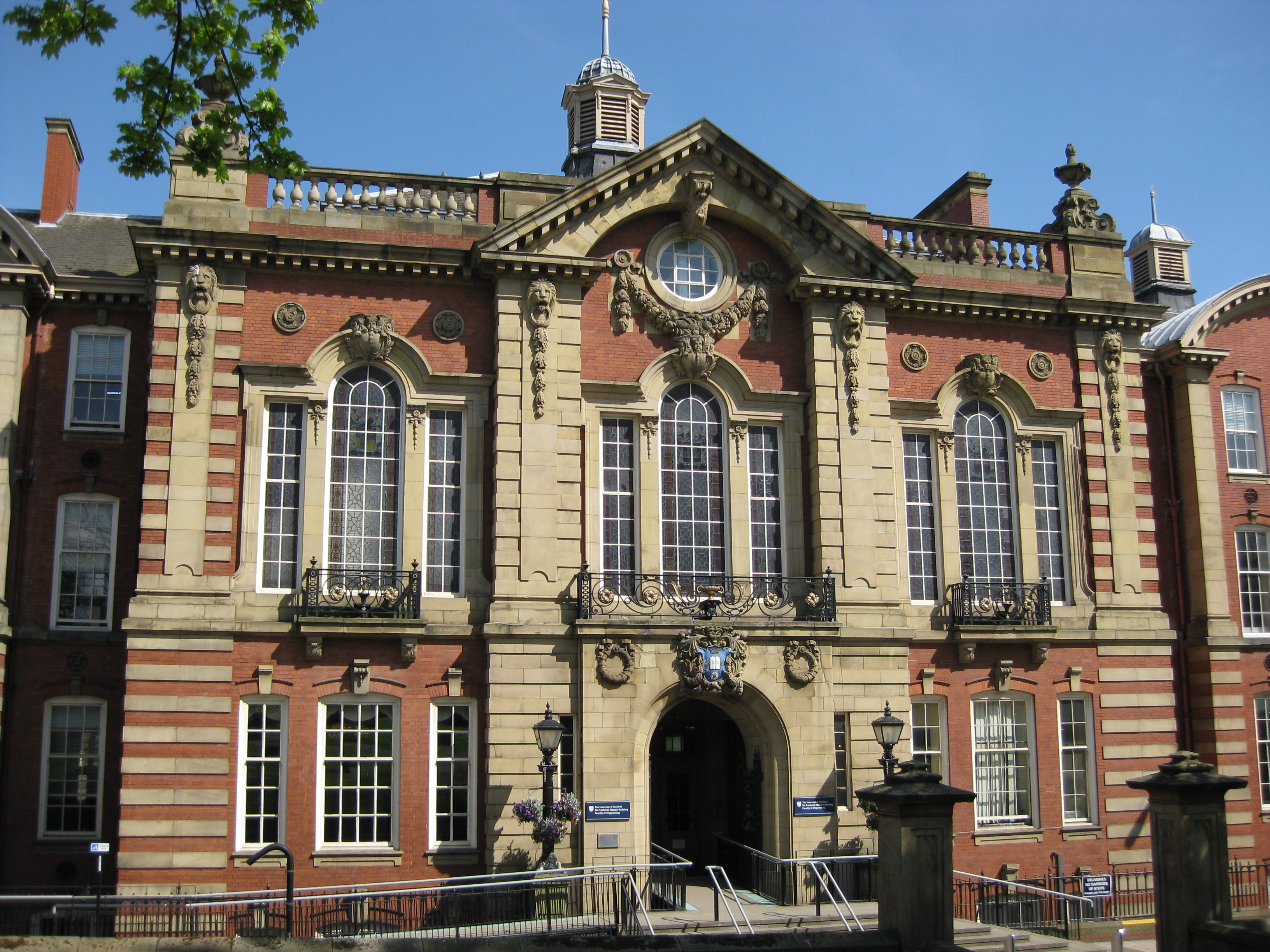 Front entrance of the Mappin Building, University of Sheffield, Mappin Street, Sheffield S1 3JD